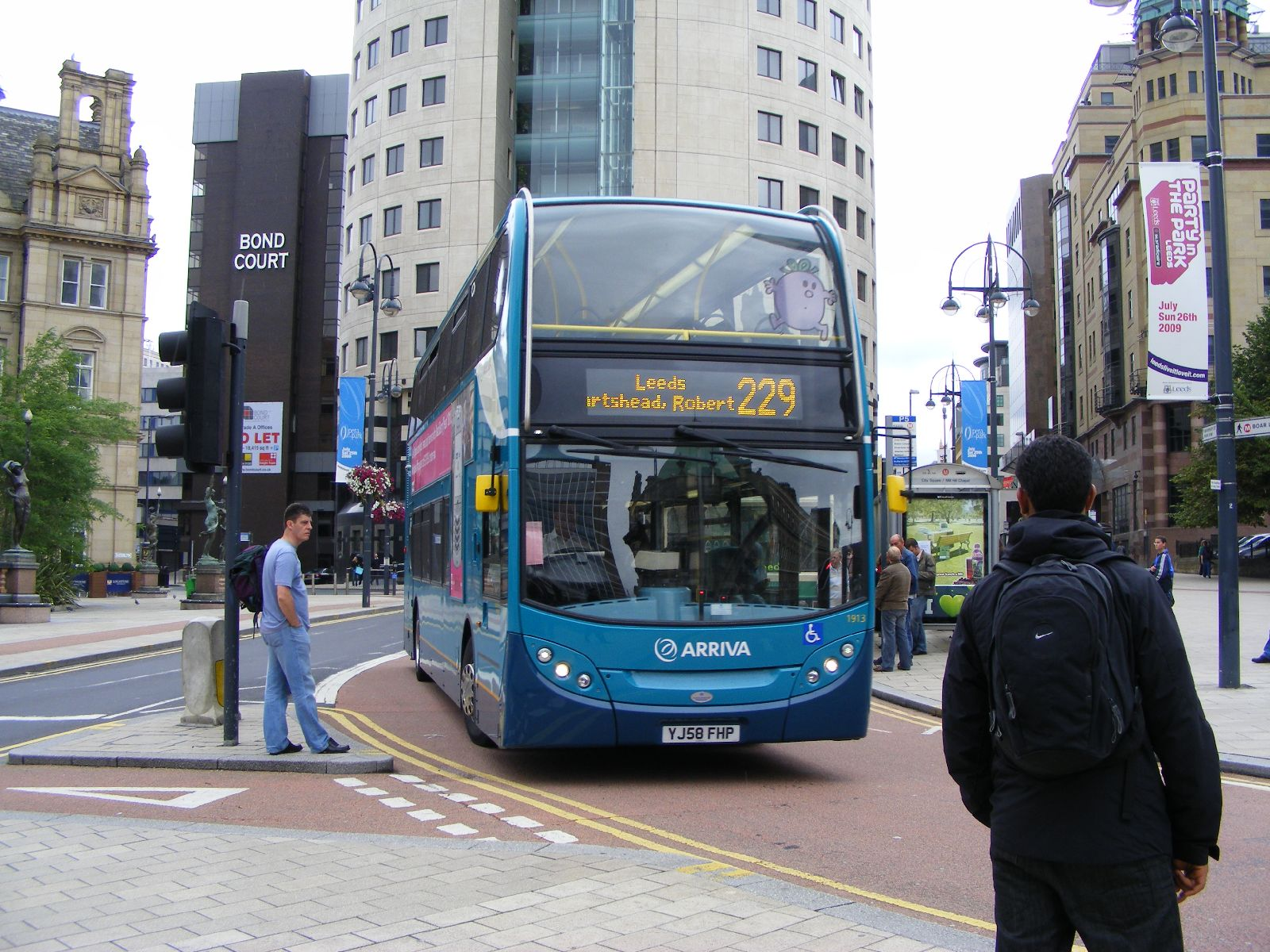 Arriva Yorkshire 1913 Little Miss Naughty (YJ58 FHP), an Alexander Dennis Enviro400, in Leeds on route 229.